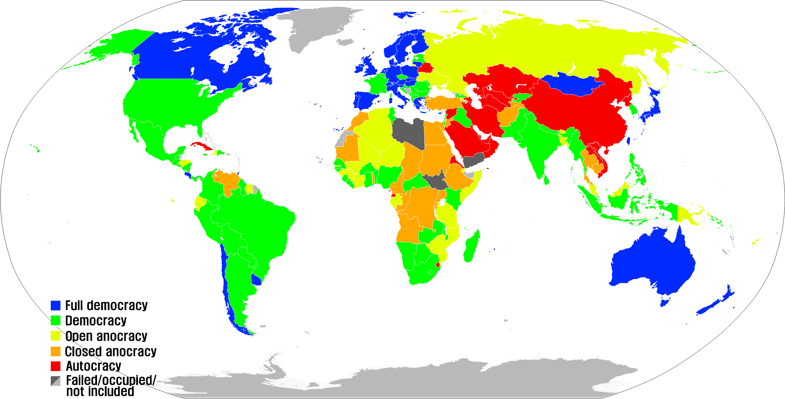 Polity data series map of the world showing different regime types. Based on blank map: Data (Polity IV: Regime Authority Characteristics and Transitions Datasets - Excel)